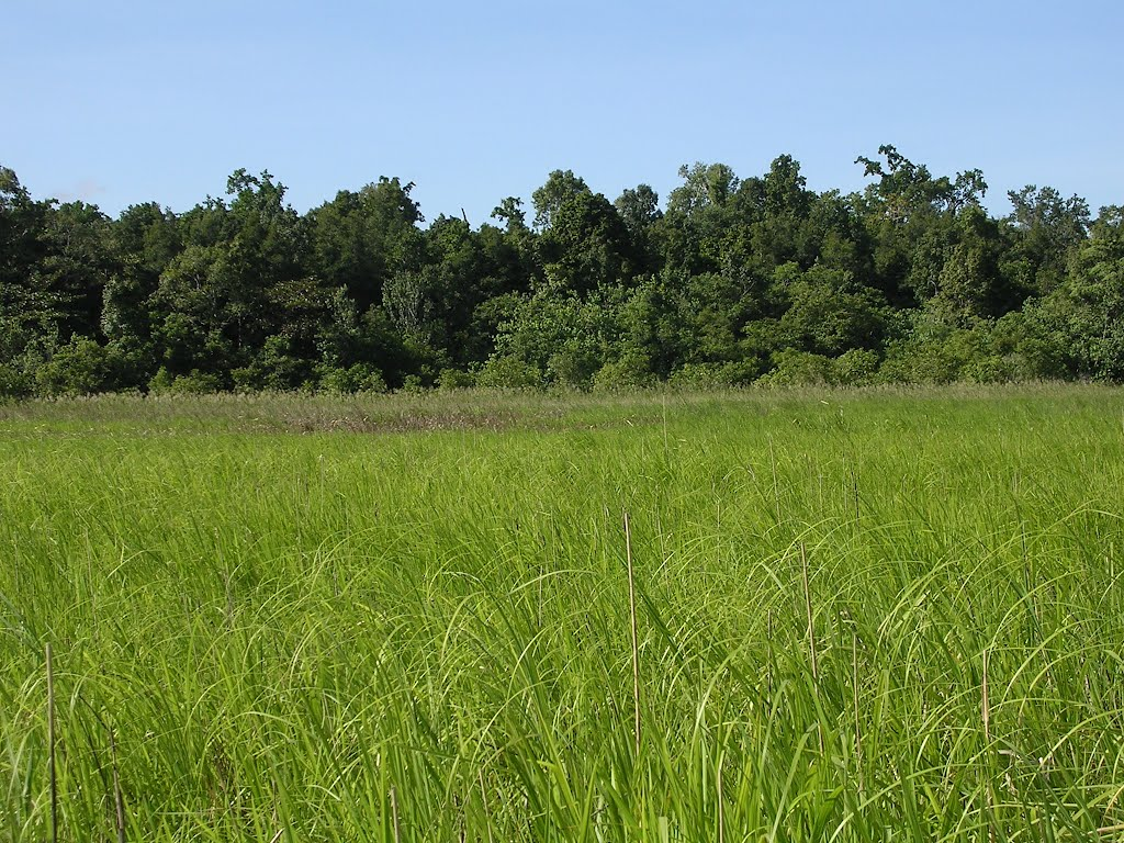 Extensive swampland and tall grassland in Sungai Clere area, suco Uma Berloic, Manufahi